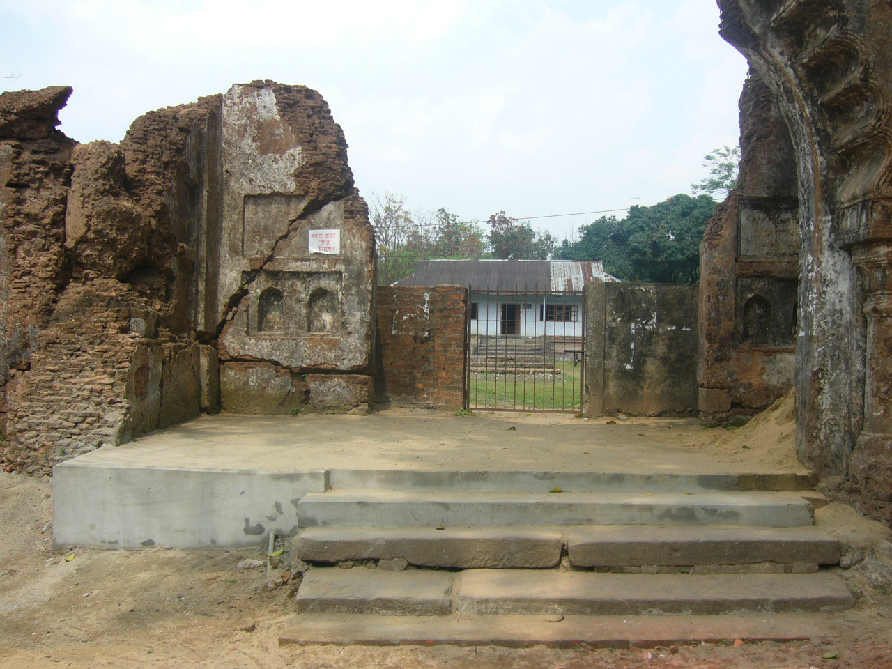 Author: Shahnoor Habib Munmun